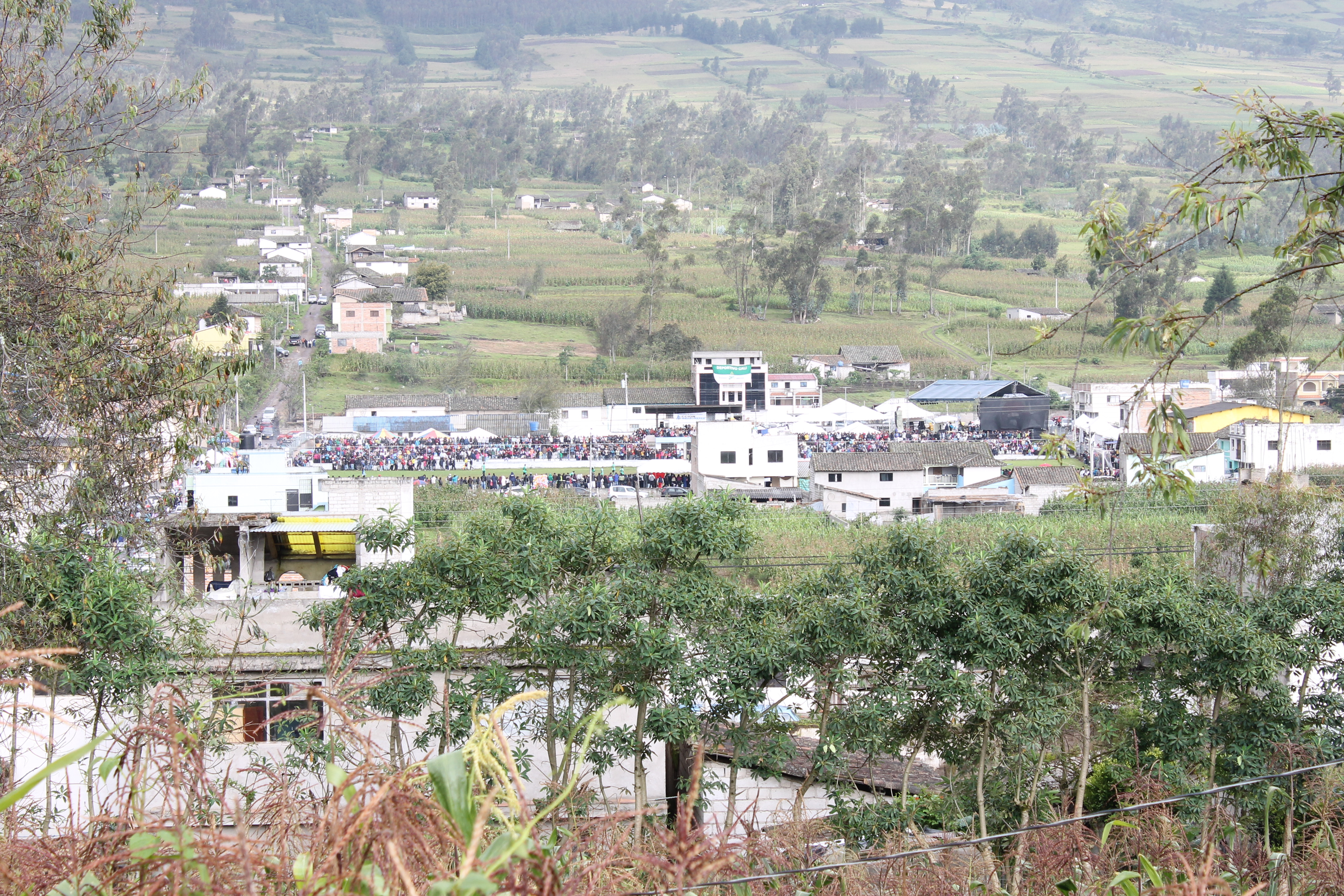 Native villages